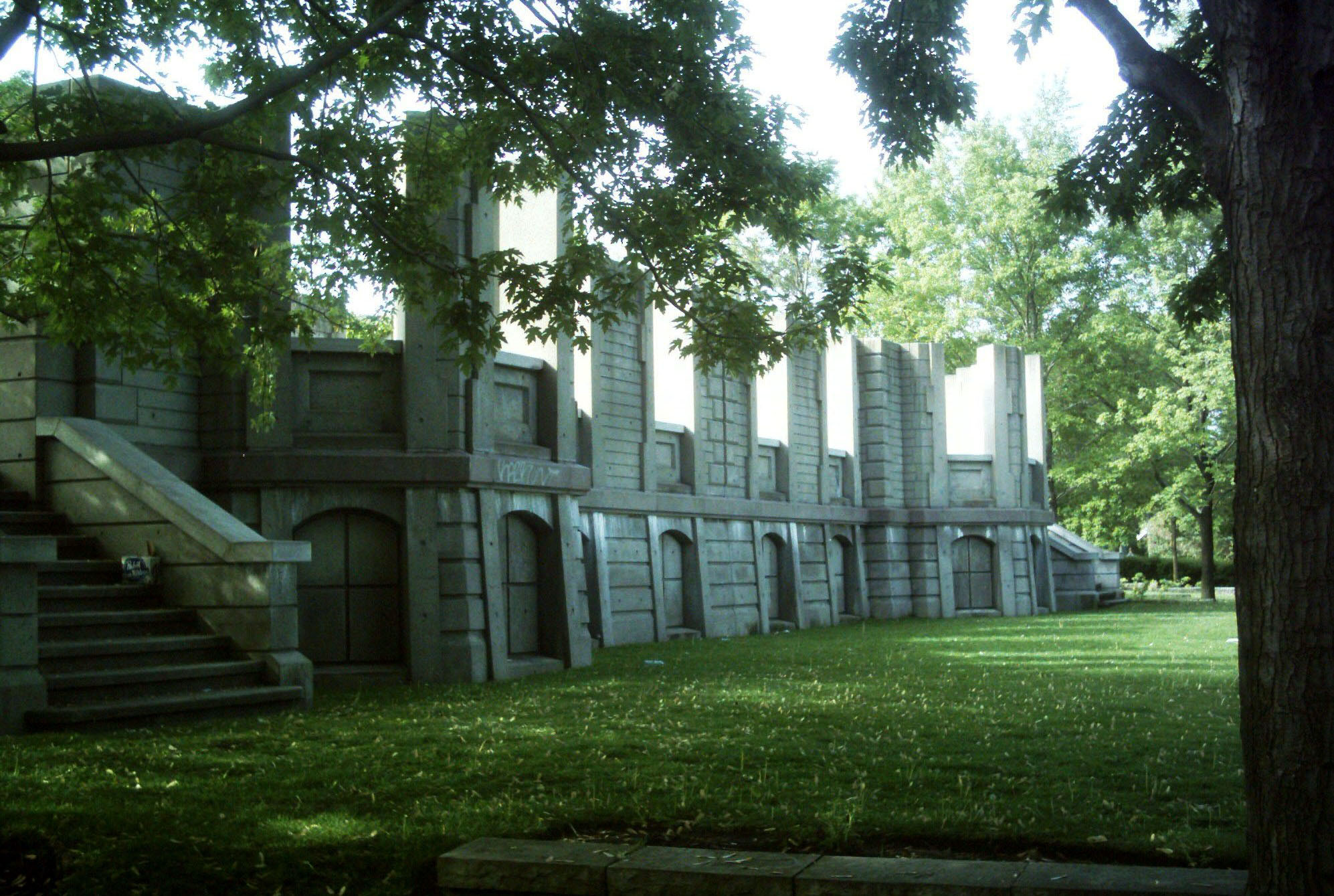 Garden, Canadian Center for Architecture, Montreal